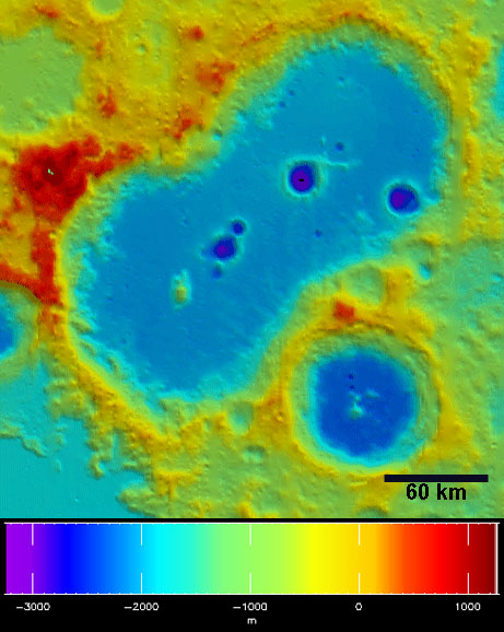 Lunar Orbiter Laser Altimeter image of the Van de Graaff crater